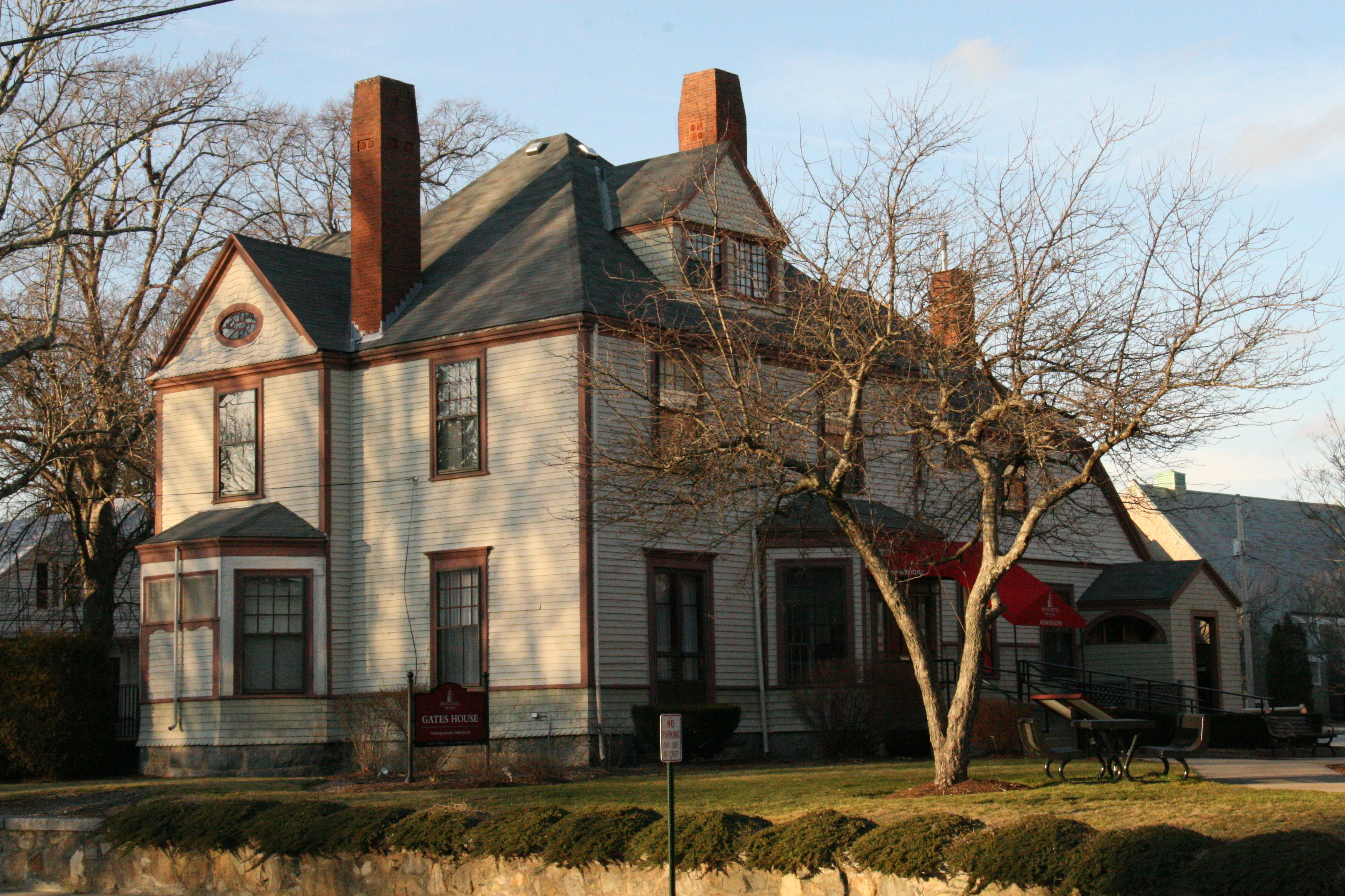 Bridgewater University 40 Cedar St. Bridgewater Ma.